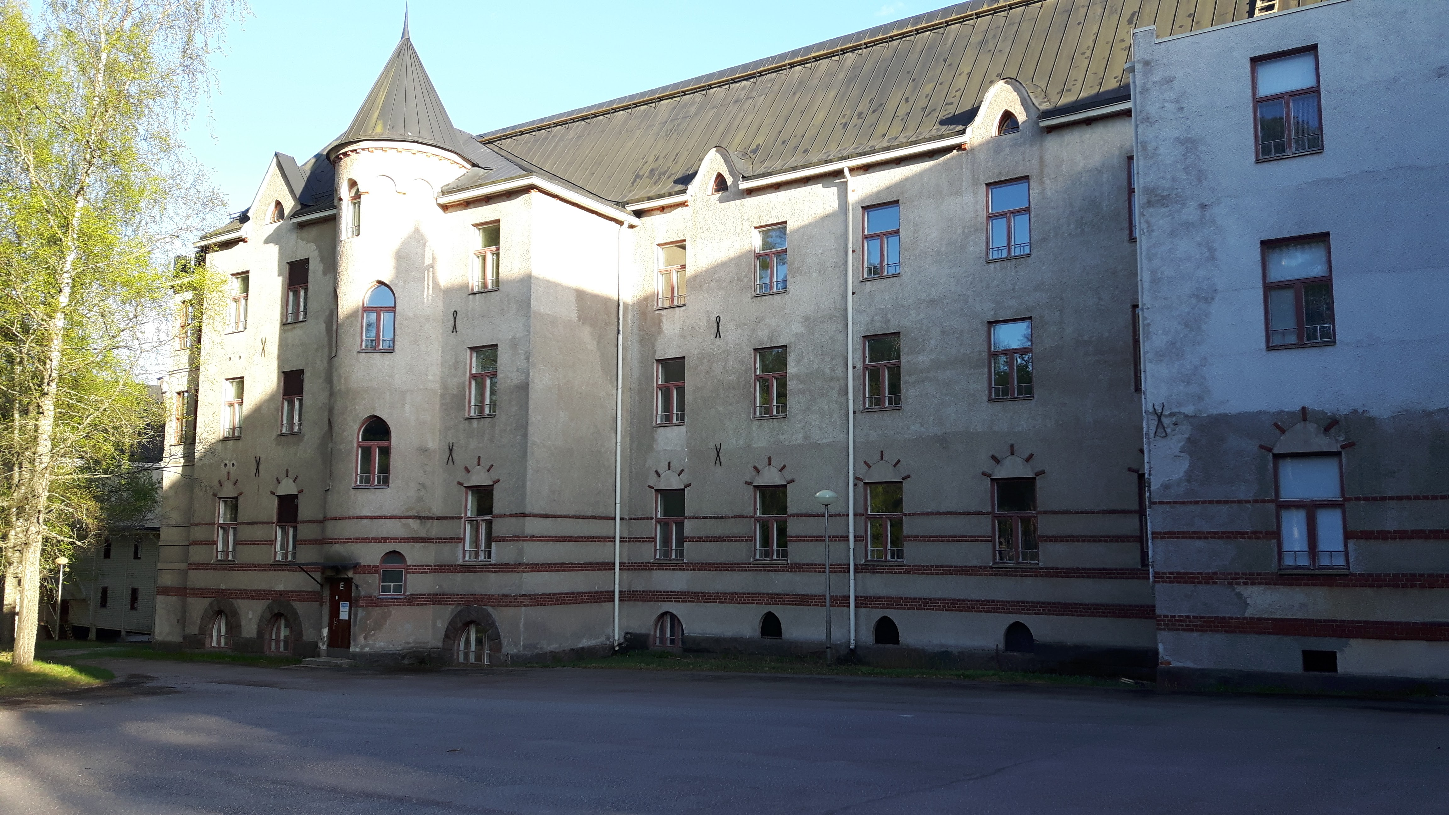 lung disease care hospital